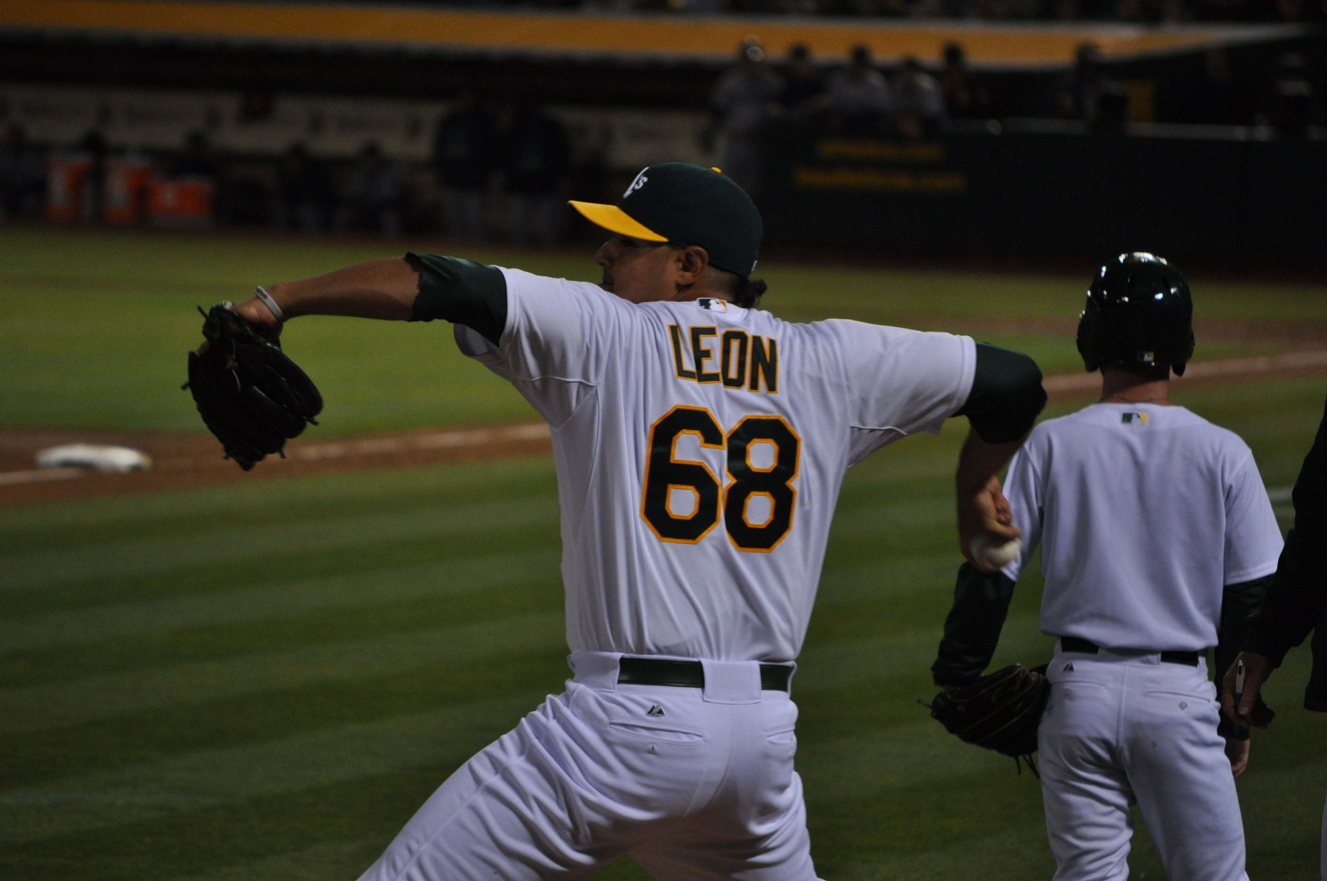 Leon warms up in the A's bullpen